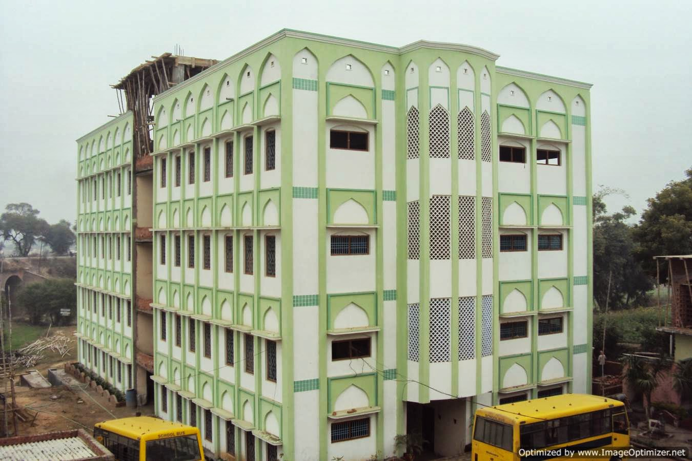 Headquarter of Islamic Welfare Society.